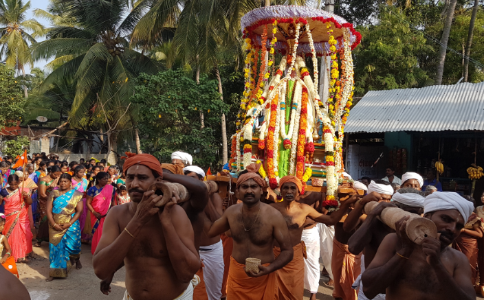 Ayya vahana bavani on Ayya birthday , 3rd March 2019